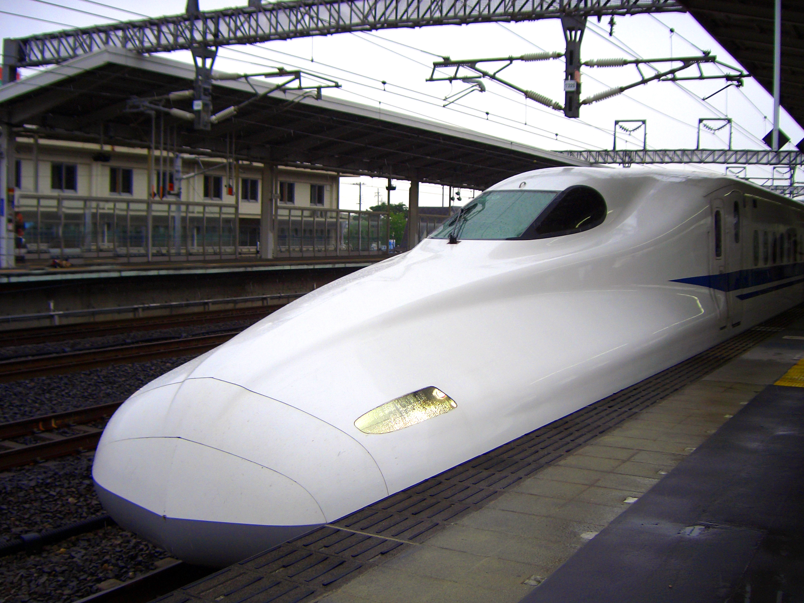 Test run of Shinkansen N700